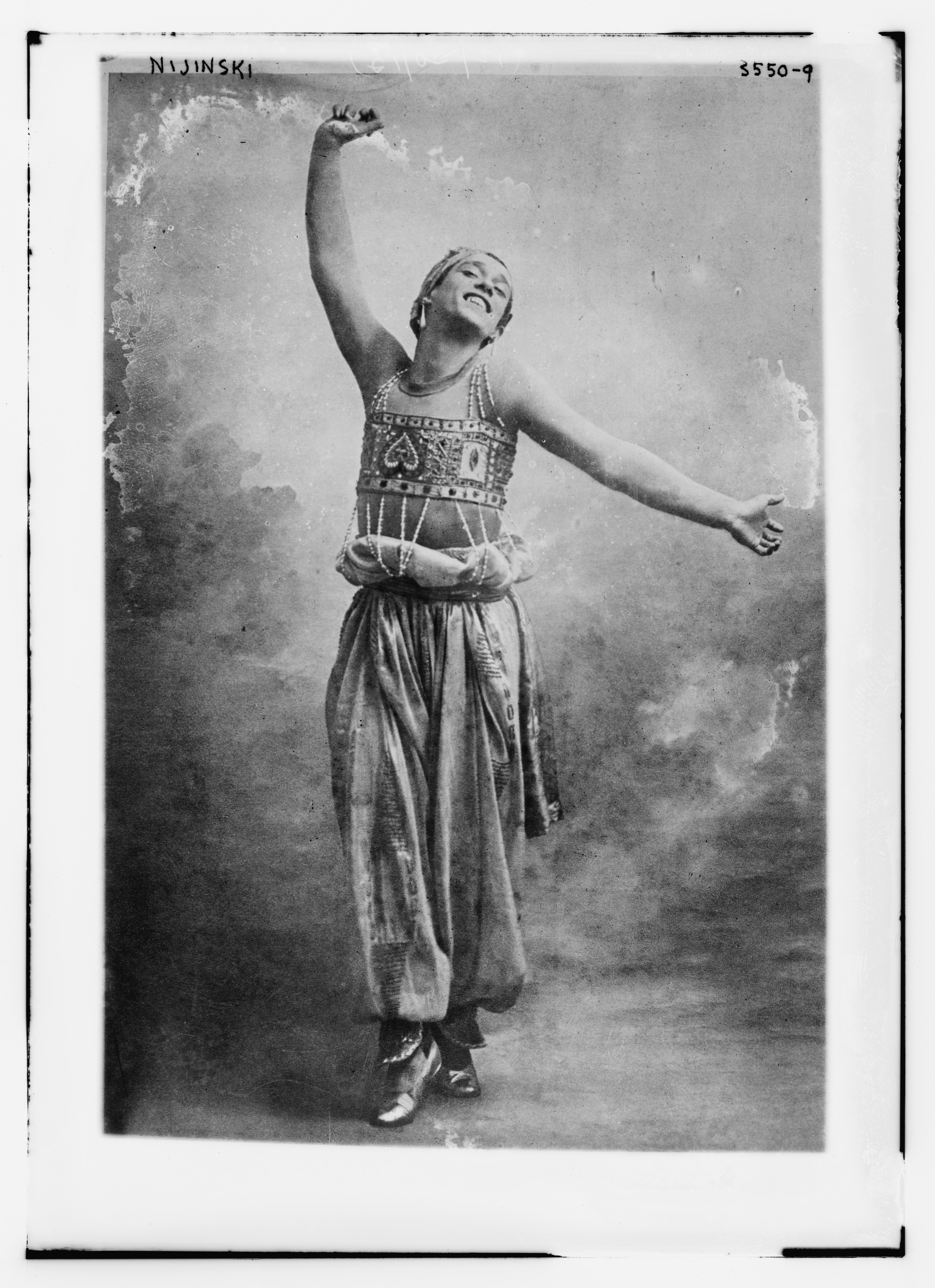 Vaslav Nijinsky in Scheherazade. "Nijinsky". 1 negative : glass ; 5 x 7 in or smaller. Photograph in the style of Baron de Meyer.